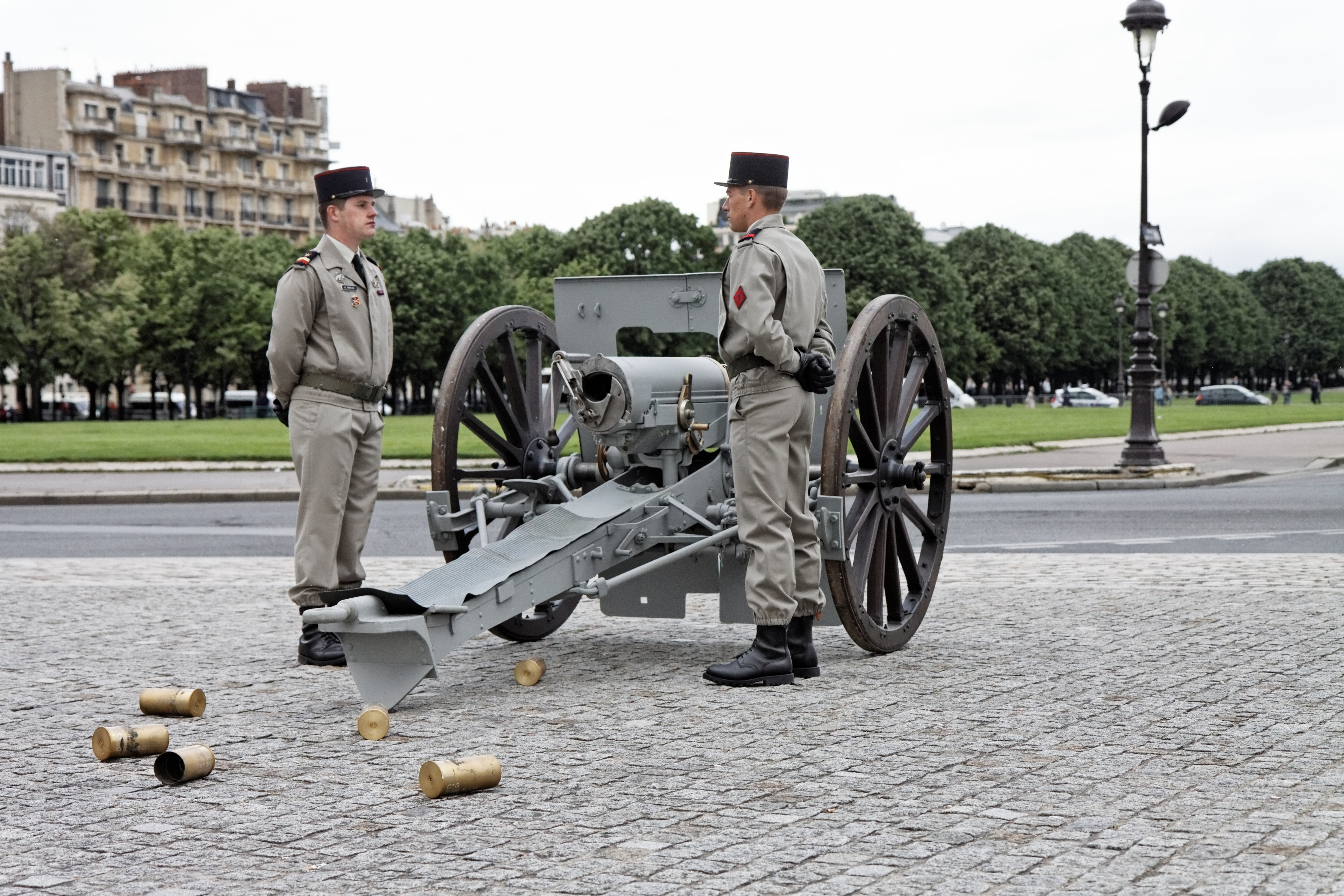 Saluting gun battery fielded in front of the Invalide after firing the 21-gun salute in honour of the new President of the French Republic. The gun is a Canon de 75 modèle 1897